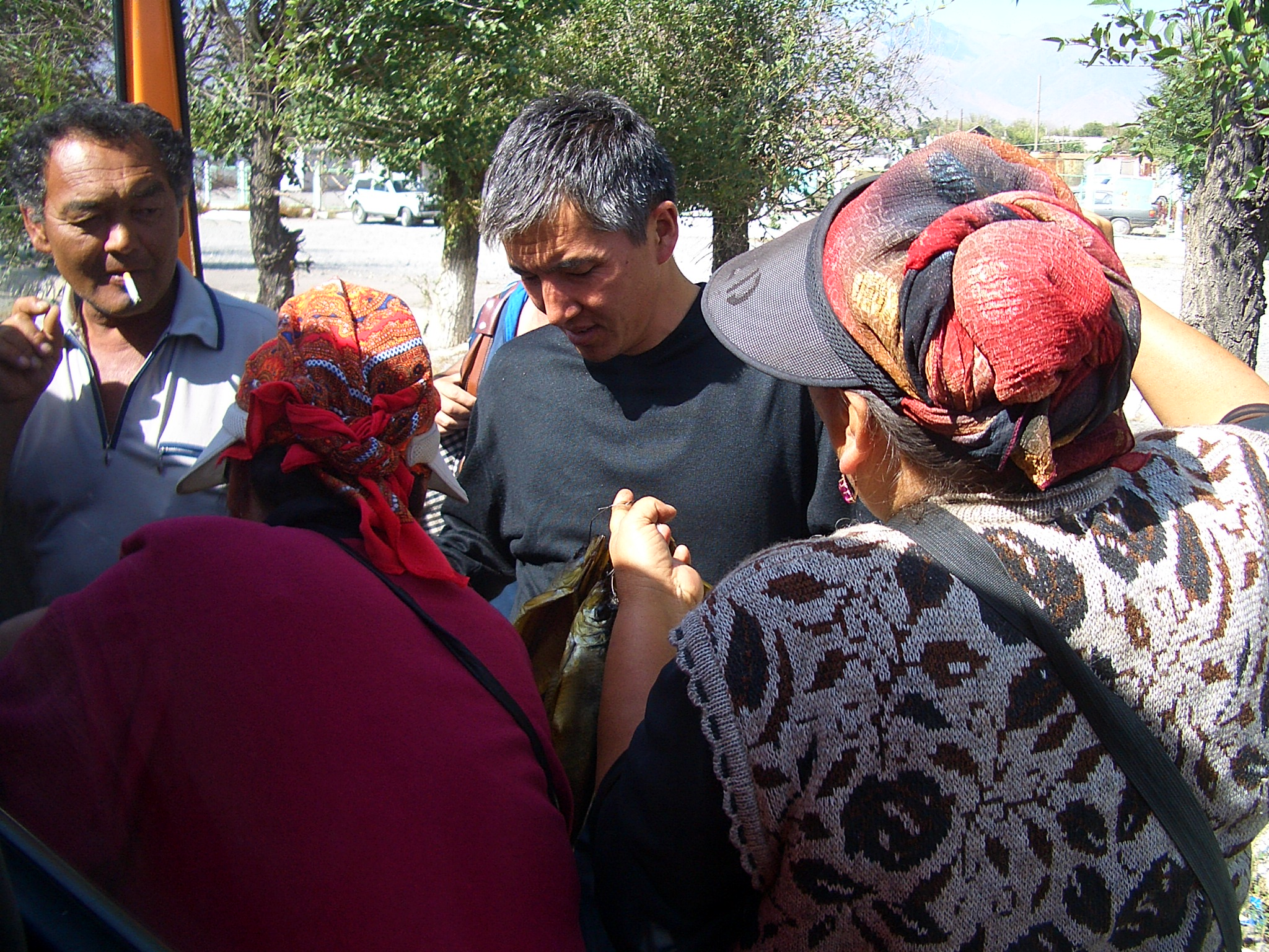 Bus passengers buying dries fish from fish vendor ladies at Balykchy, Issyk Kul Province, Kyrgyzstan.